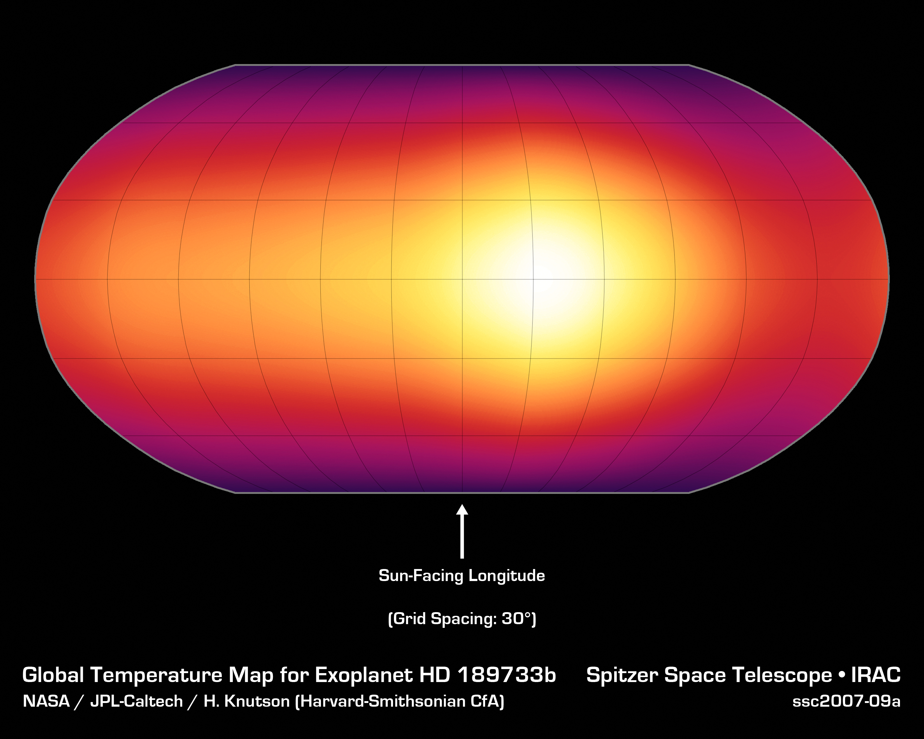 This is the first-ever map of the surface of an exoplanet, or a planet beyond our solar system. The map, which shows temperature variations across the cloudy tops of a gas giant called HD 189733b, is made from infrared data taken by NASA's Spitzer Space Telescope. Hotter temperatures are represented in brighter colors. HD 189733b is what is known as a hot-Jupiter planet. These sizzling, gas planets practically hug their stars, orbiting at distances that are much closer than Mercury is to our sun. They whip around their stars quickly; for example, HD 189733b completes one orbit in just 2.2 days. Hot Jupiters are also thought to be tidally locked to their stars, just as our moon is to Earth. This means that one side of a hot Jupiter always faces its star. As predicted, the map reveals that HD 189733b has a warm spot on its "sunlit" side, which is always pointed toward the star. But the map also shows that this spot is offset from the high-noon, or sun-facing, point by 30 degrees. According to scientists, ferocious winds traveling up to 6,000 miles per hour (nearly 9,700 kilometers per hour) are probably pushing the hot spot to the east. In addition to the warm spot, the map tells astronomers that temperatures on HD 189733b are fairly even all around. While the dark side is about 1,200 degrees Fahrenheit (650 degrees Celsius), the sunlit side is just a bit hotter at 1,700 degrees Fahrenheit (930 degrees Celsius). This mild temperature variation is more evidence for strong winds, since winds would help spread the heat from the hot, sunlit side over to the dark side. These data were collected by Spitzer's infrared array camera as the planet, a so-called transiting planet, passed in front of its star, then swung around and disappeared behind it (see animation). By observing the planet for half of its 2.2-day long orbit, Spitzer was able to measure the infrared light, or heat, coming from its entire surface.